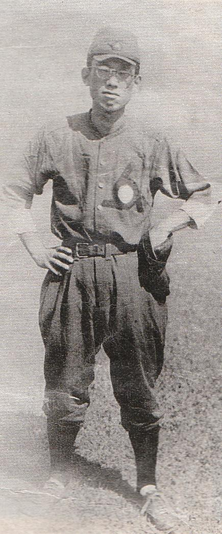 A professional baseball player from Japan, Saburo Kosaka(This Sangyo professional baseball team on the register time in 1944).